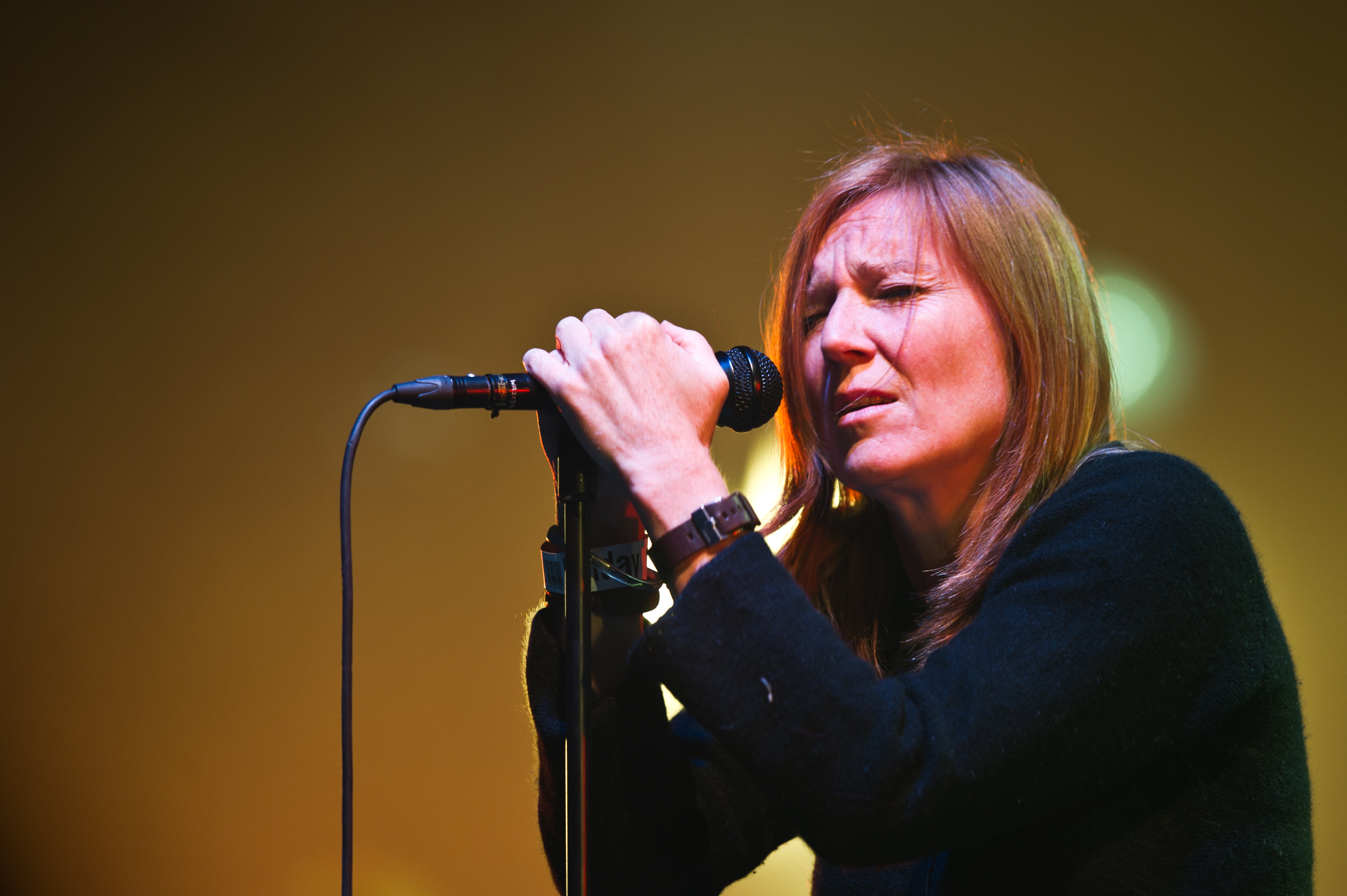 Beth Gibbons performing with Portishead at Roskilde Festival 2011 on Orange Stage.